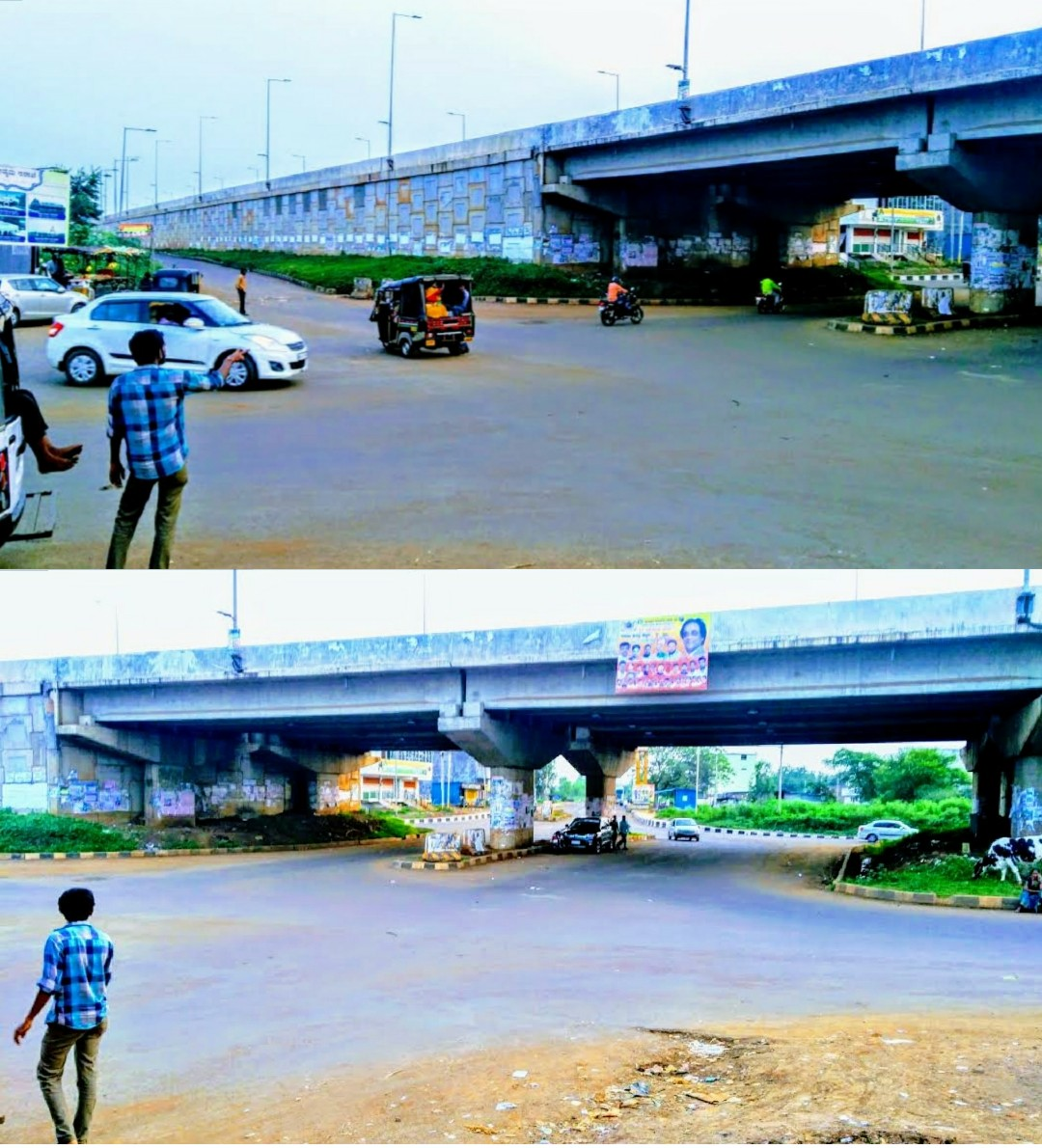 This is NH65 flyover over NH15 at Bidar cross Mannaekhelli